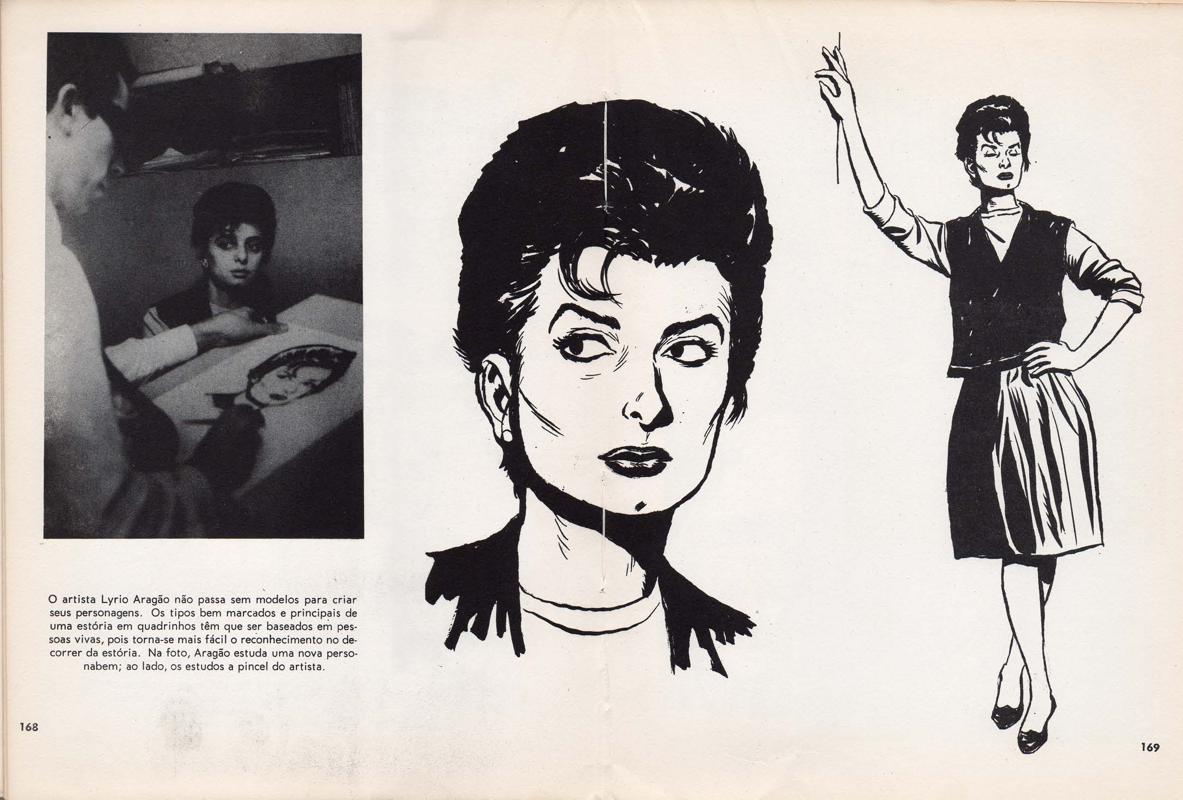 Referência em obra de Jayme Cortez